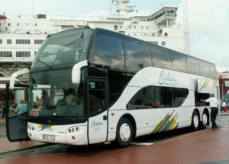 Scania K124/Ayats Bravo in Stockholm.